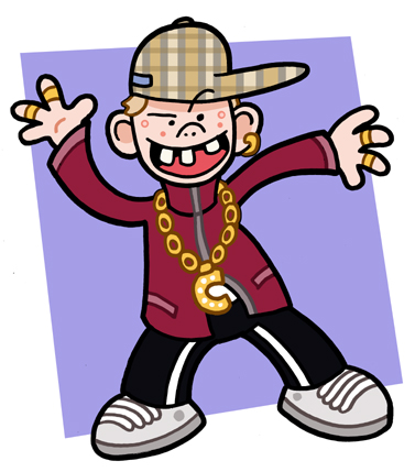 User:J.J. self-drawn caricature of a British "chav"